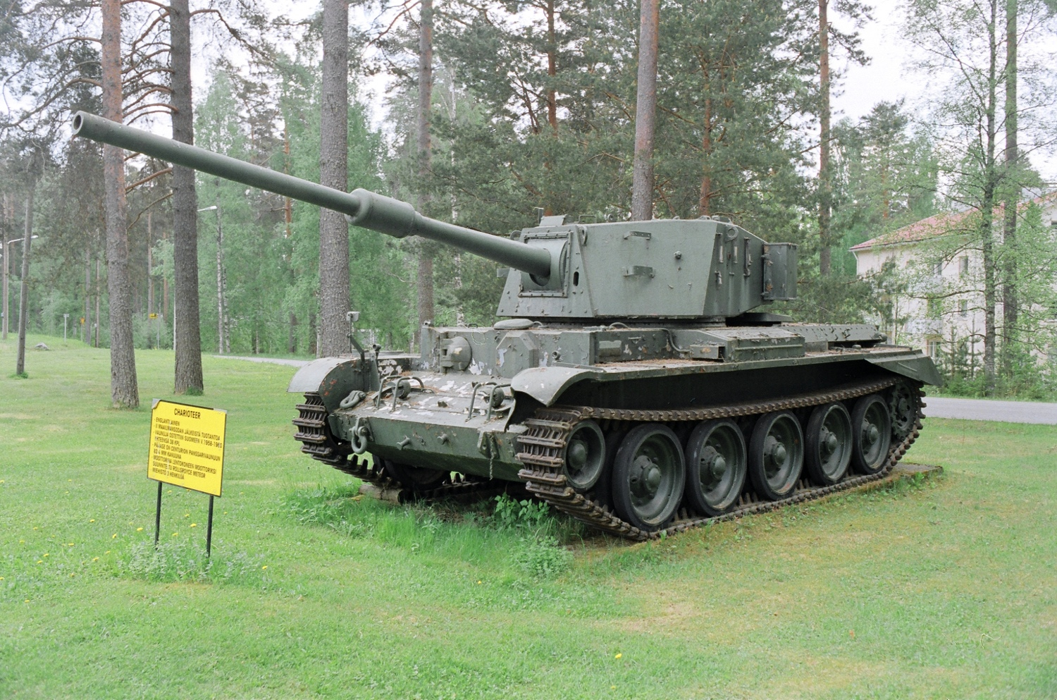 A Charioteer tank destroyer in the Karkialampi barracks area in Mikkeli, Finland.